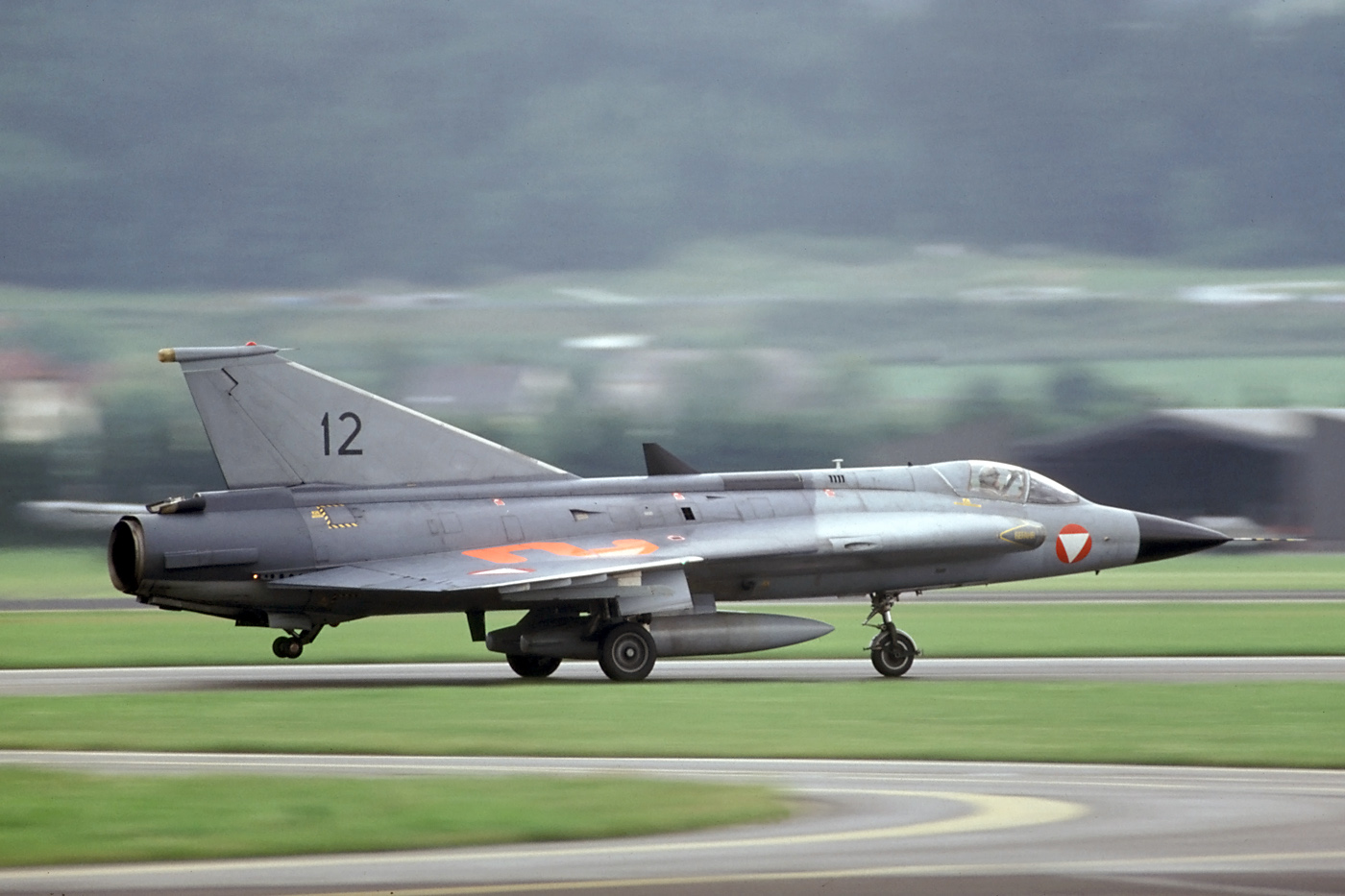 Zeltweg (Austria), 19 June 1997. A Draken starting its take off run. In the pouring rain.